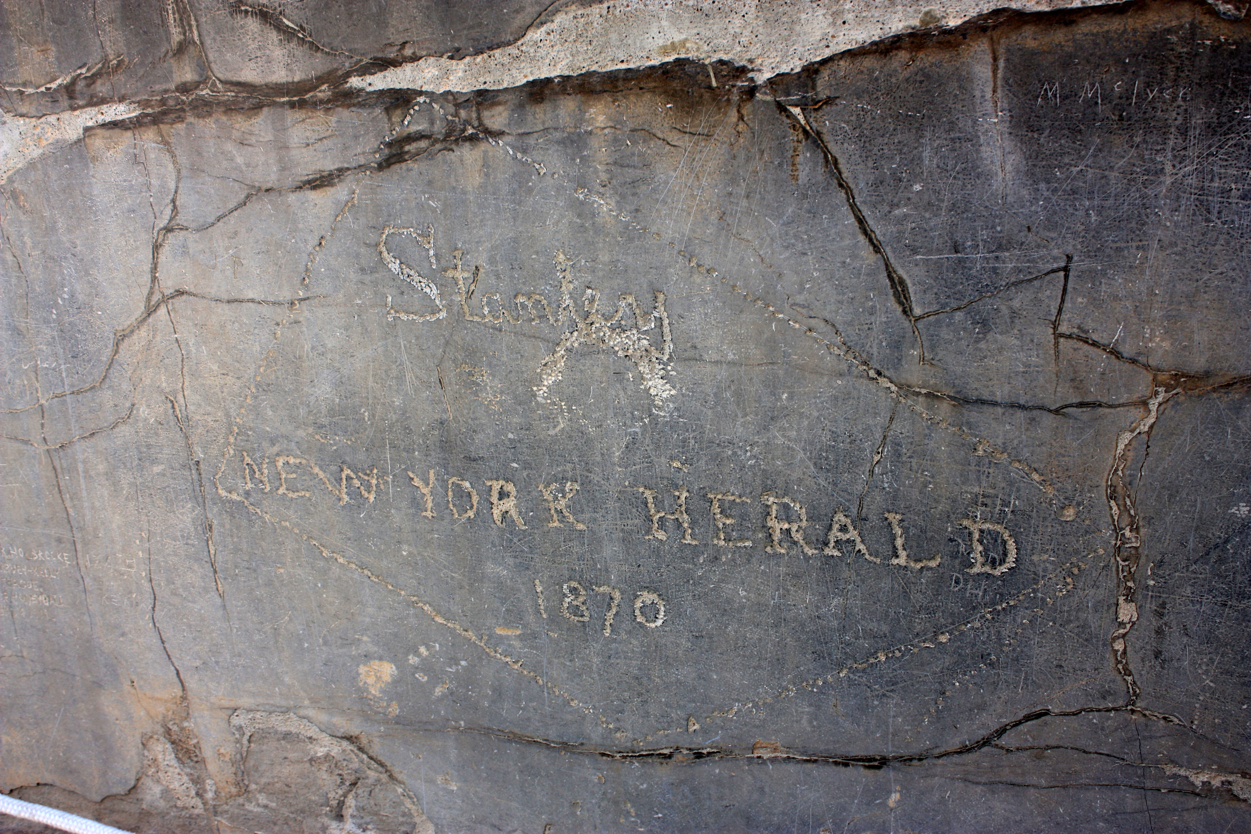 Graffiti engraved by Henry Morton Stanley (the explorer) on the Gate of All Lands at Persepolis, Iran. He engraved his name, "New York Herald", and the date of 1870. This is one of many examples of graffiti that defaced Persepolis through the ages.